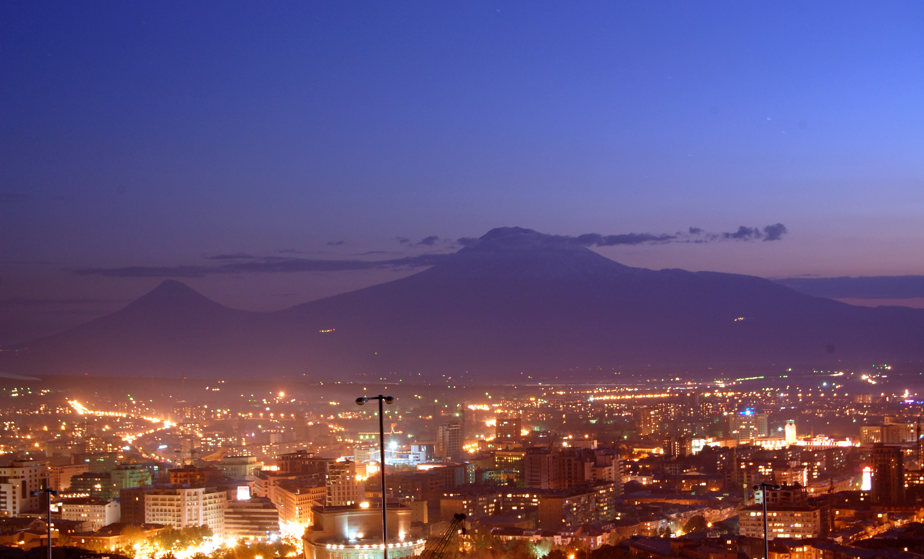 Yerevan and Ararat at night